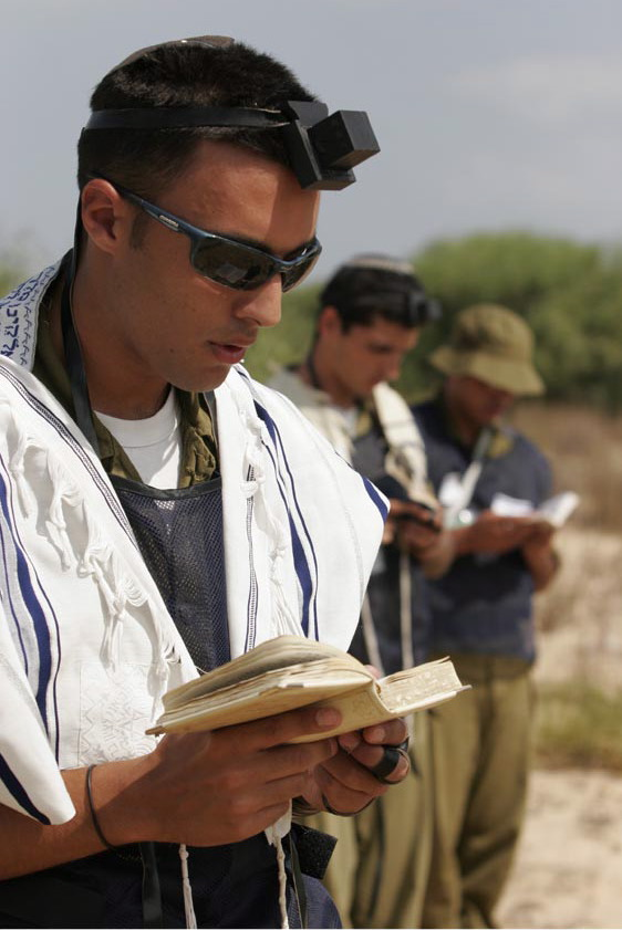 August 17, 2005. Soldiers pray before beginning the evacuation of the Israeli community of Bedolach. The evacuation of the Israeli community Bedolach was part of the Gaza disengagement in the summer of 2005.